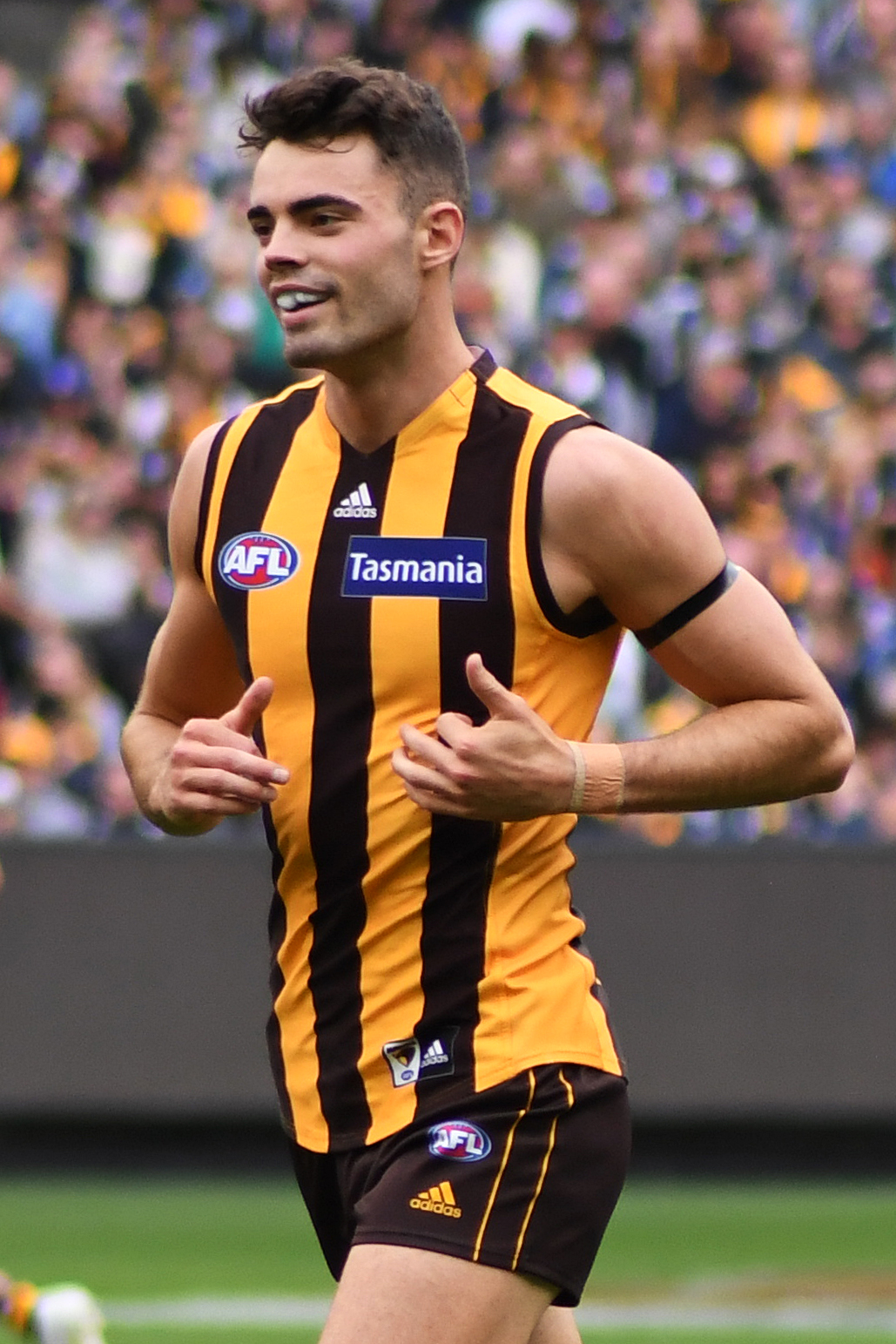 Conor Nash of Hawthorn during the 2019 AFL round 5 match between Hawthorn and Geelong at the Melbourne Cricket Ground on Monday, 22 April 2019 in Melbourne, Victoria.